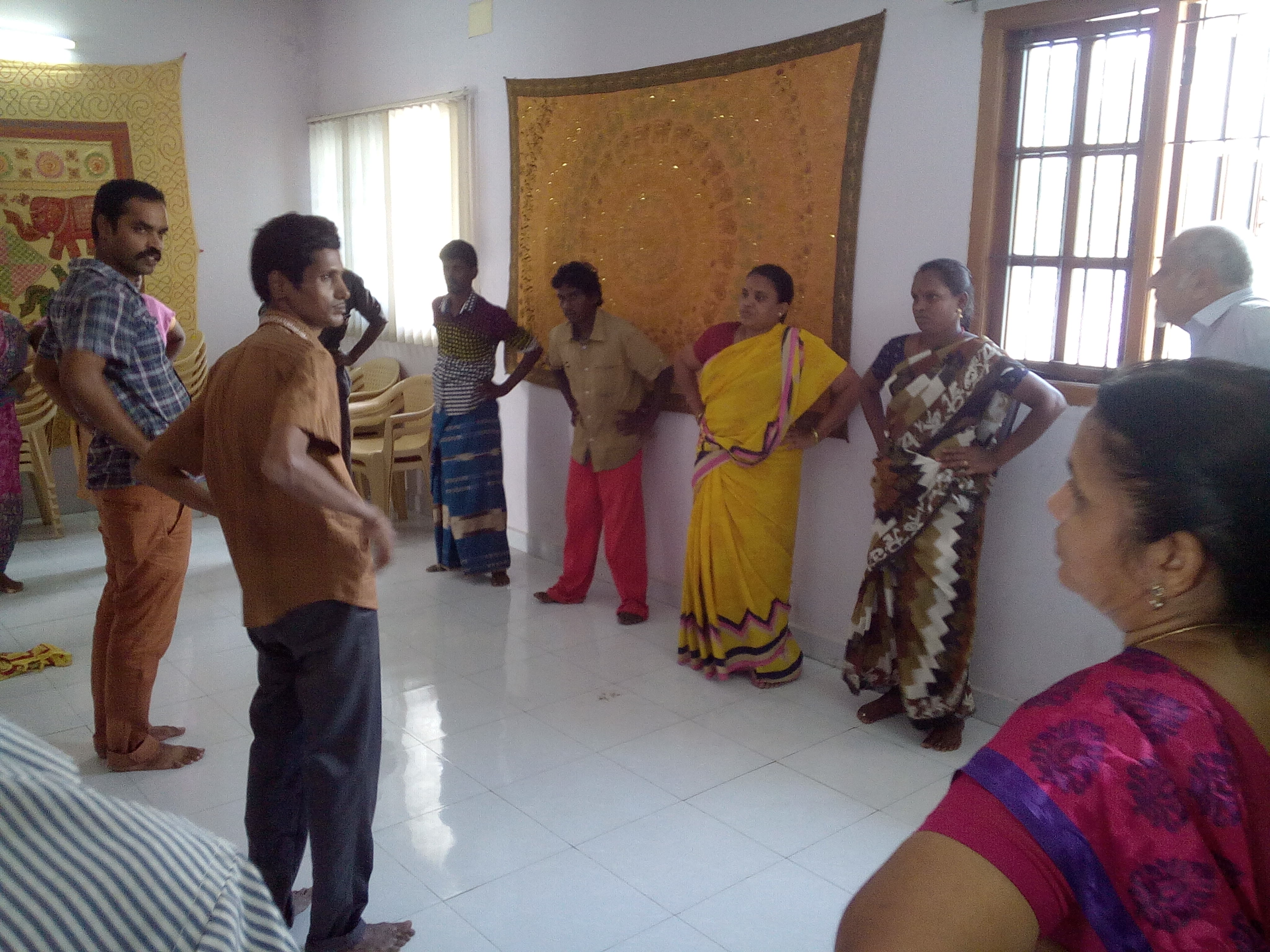 Pablo's Group: Shantmanas service users participating in the exercises.